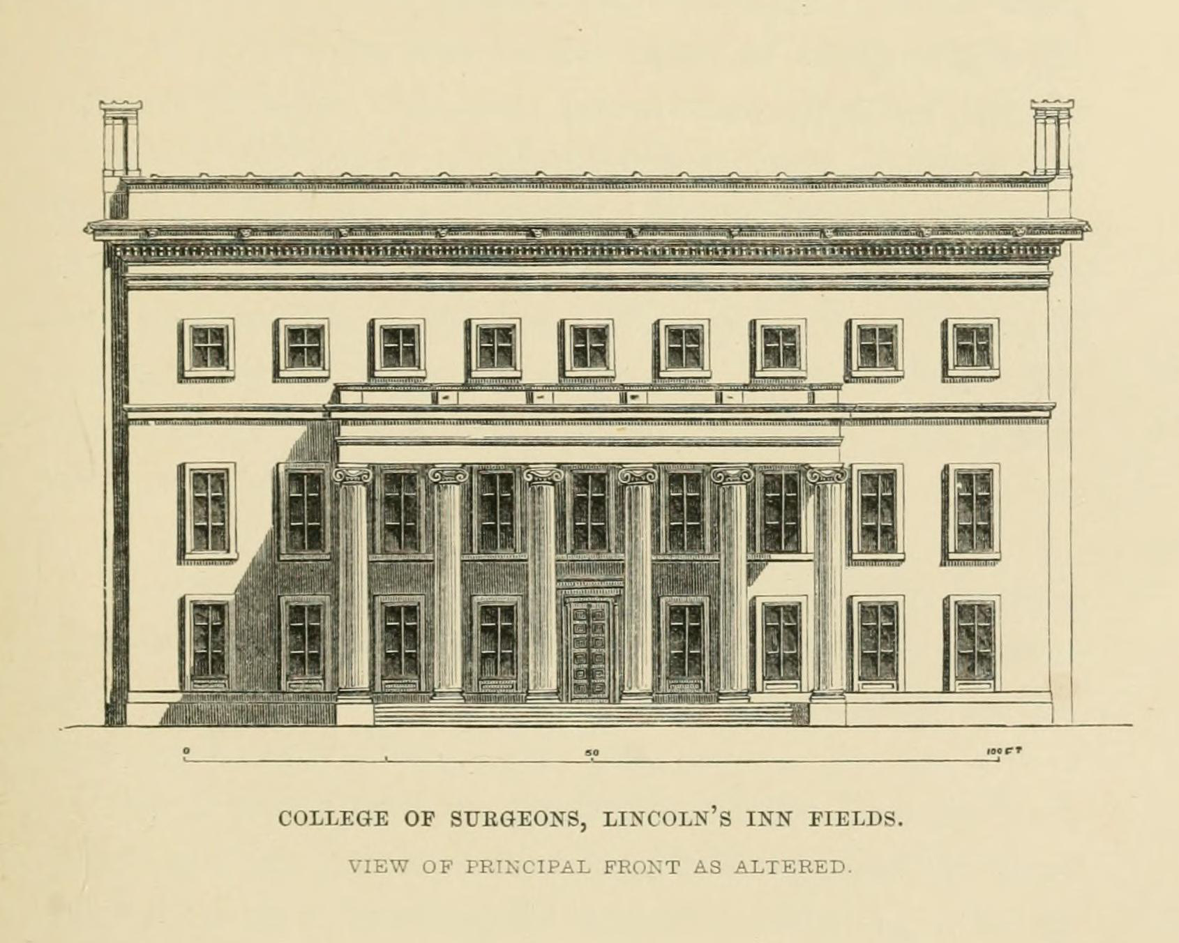 College of surgeons, Lincolns inn Fields